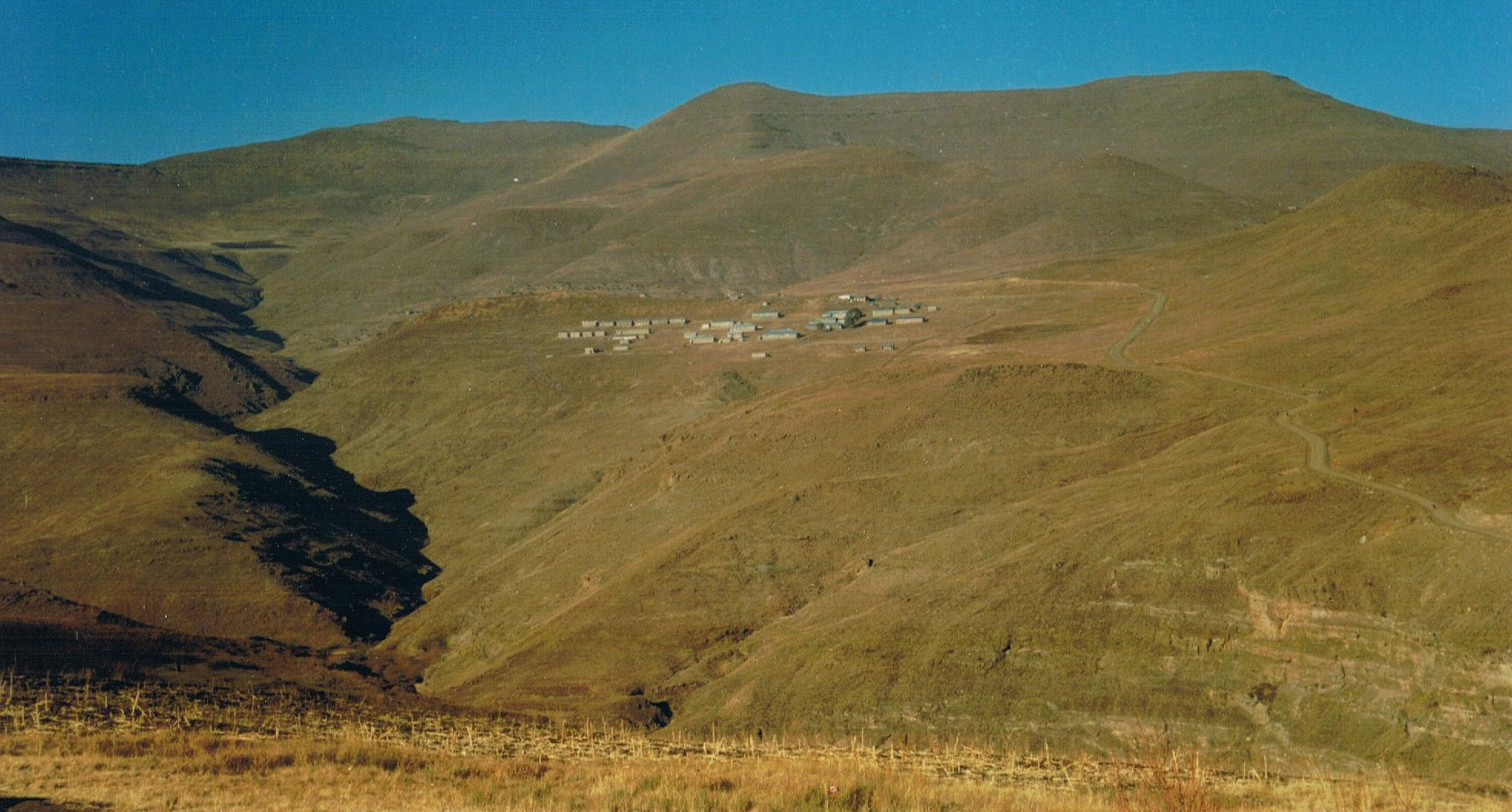 Lesotho, St. James High School, Mokhotlong District